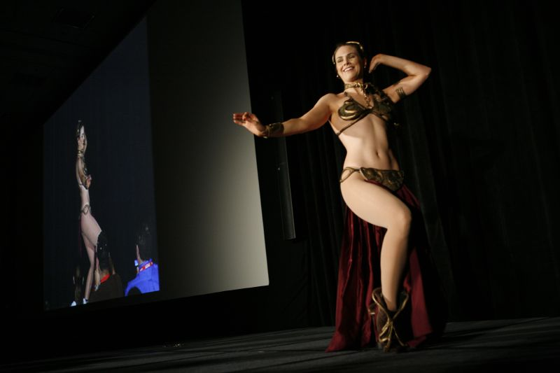 Amira Sa'id teaches fans the art of the belly dance. Photo by Jenny Elwick. Read more at the Official Celebration IV blog.